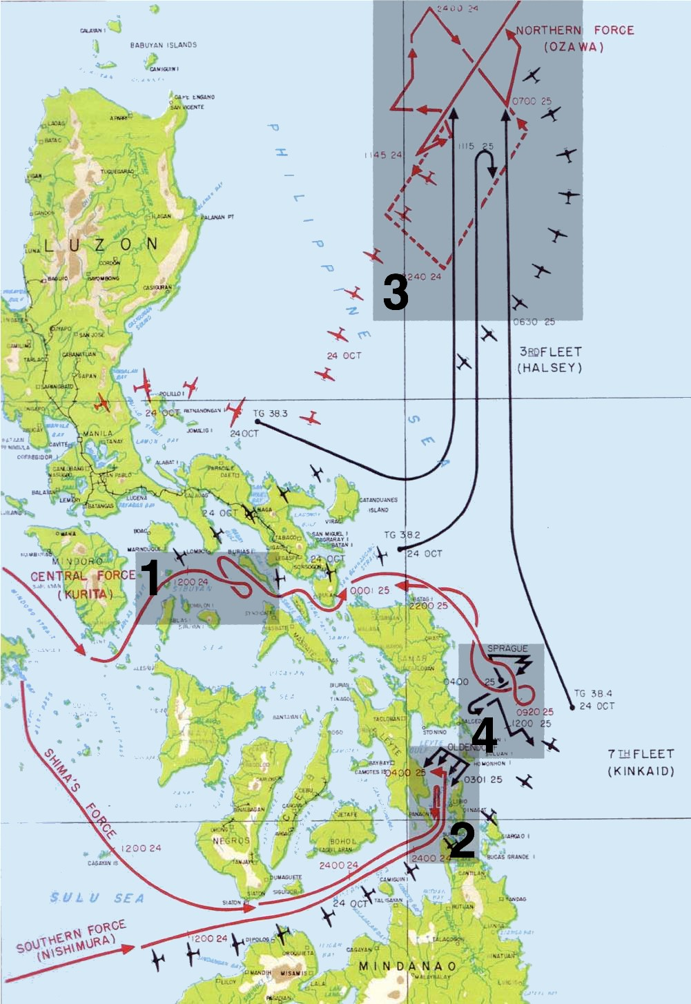 The four engagements of the battle of Leyte Gulf: Battle of the Sibuyan Sea Battle of Surigao Strait Battle off Cape Engaño Battle off Samar